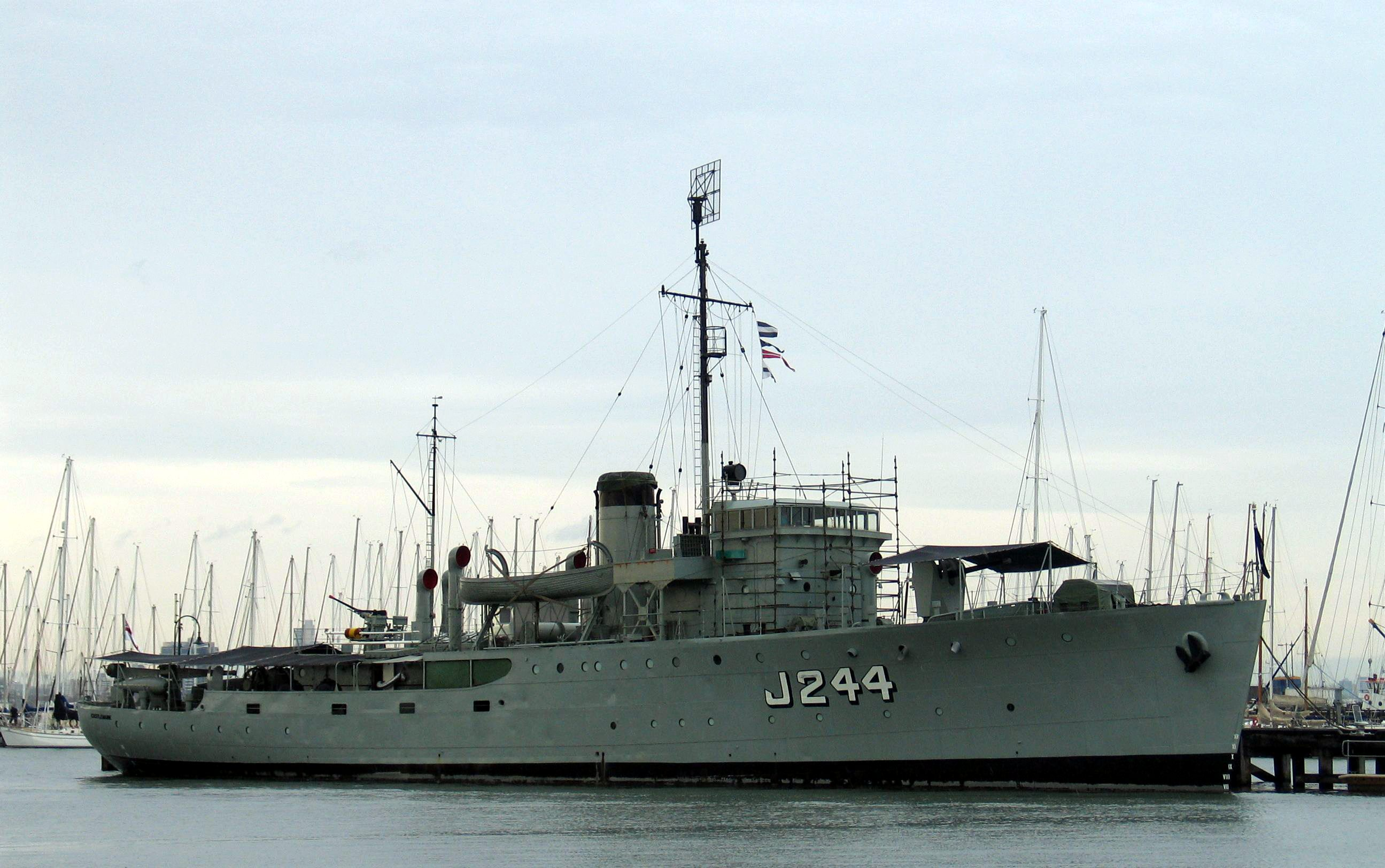 HMAS Castlemaine Bathurst-class corvette, berthed at Gem Pier, Wiliamstown, Victoria, Australia.